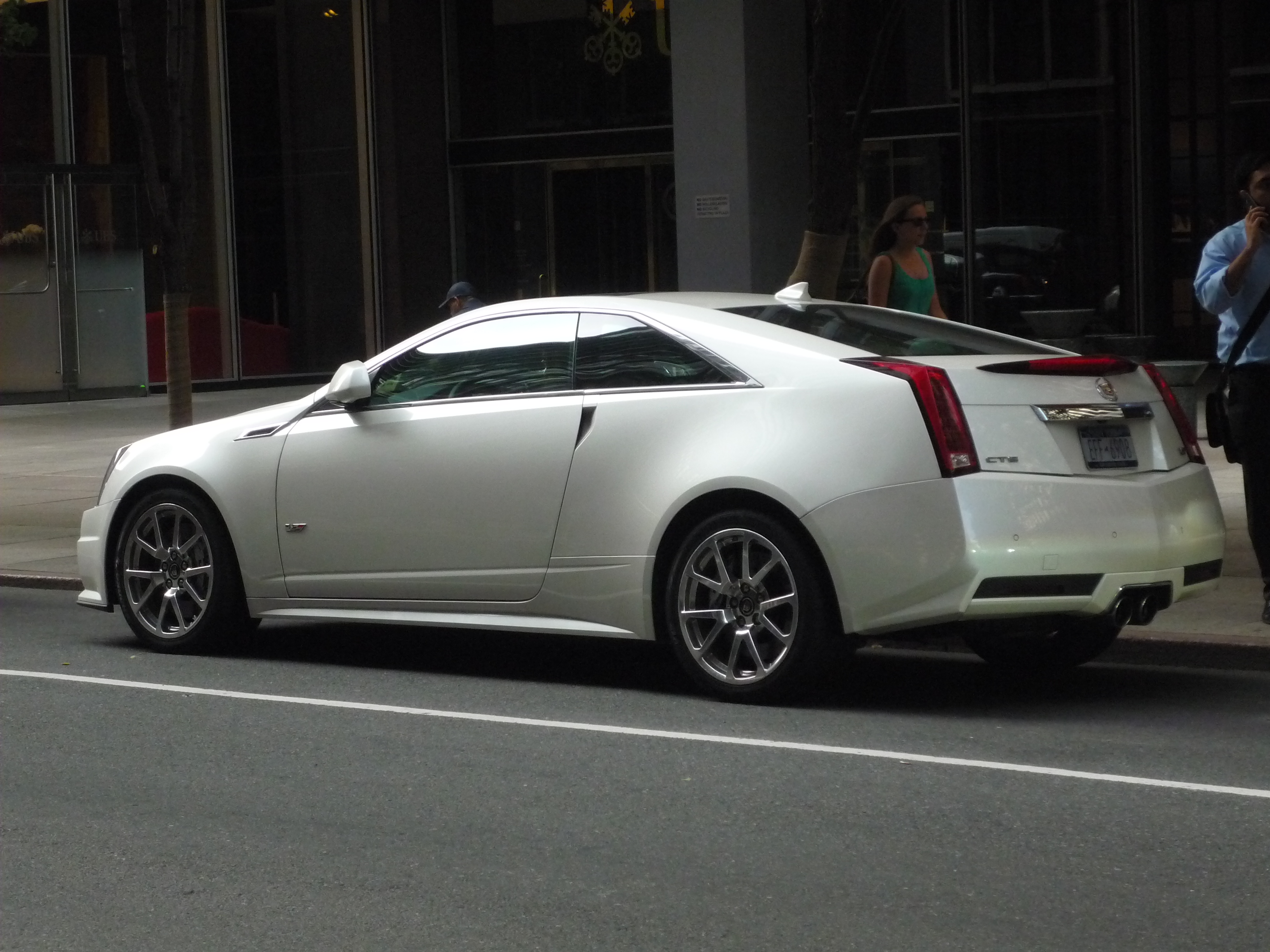 The CTS was the car that largely kicked off Cadillac's renaissance about a decade ago, and it continues to lead the way in that regard today. The CTS-V is, pound for pound, one of the best automotive performance values in existence. The V-Coupe (which first arrived in 2011) was one of the sharpest looking cars GM has ever built in my opinion. The new CTS-V has just been introduced and it is every bit the worthy successor. That said, there will be no new CTS-V Coupe. The ATS has taken the CTS's role as Cadillac's most affordable model, and the new ATS coupe (which also has a recently unveiled V variant) is effectively the successor to the CTS Coupe.